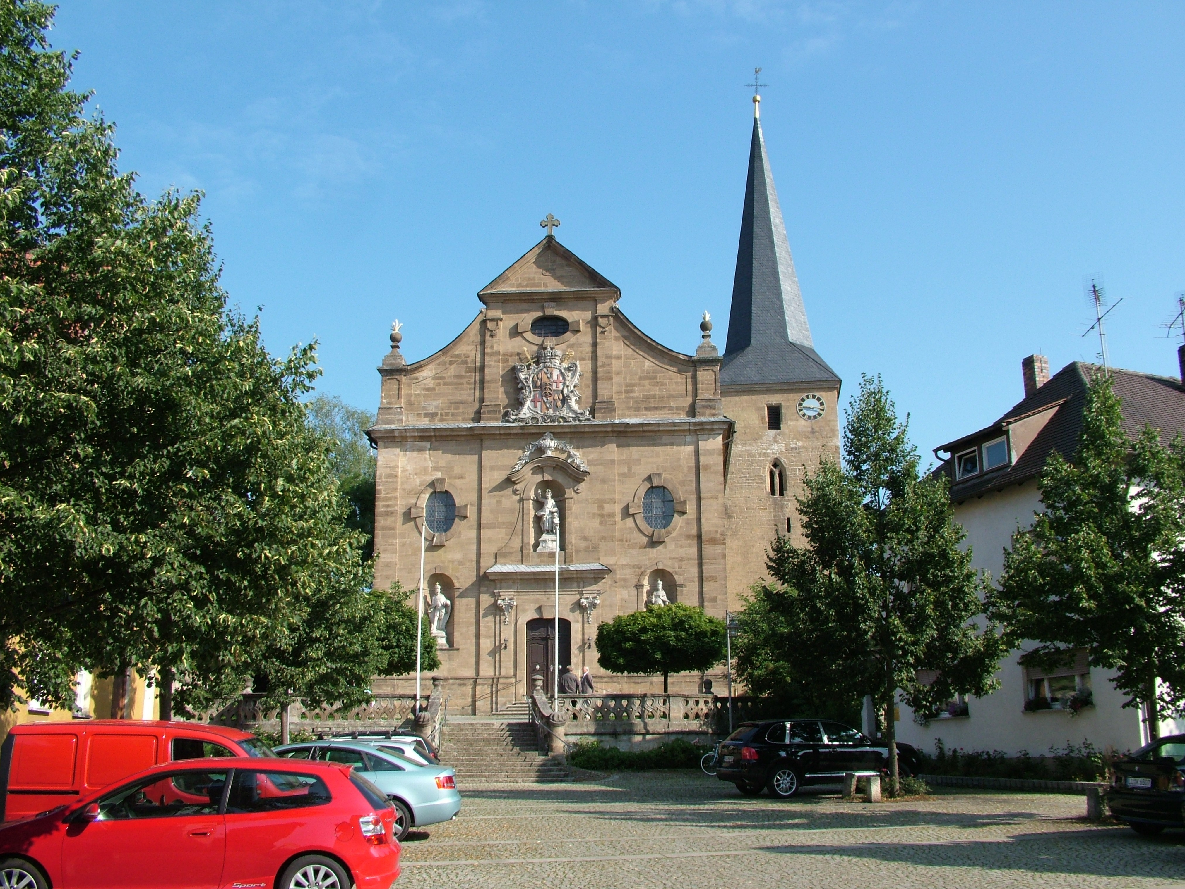 Buttenheim, Germany, the church